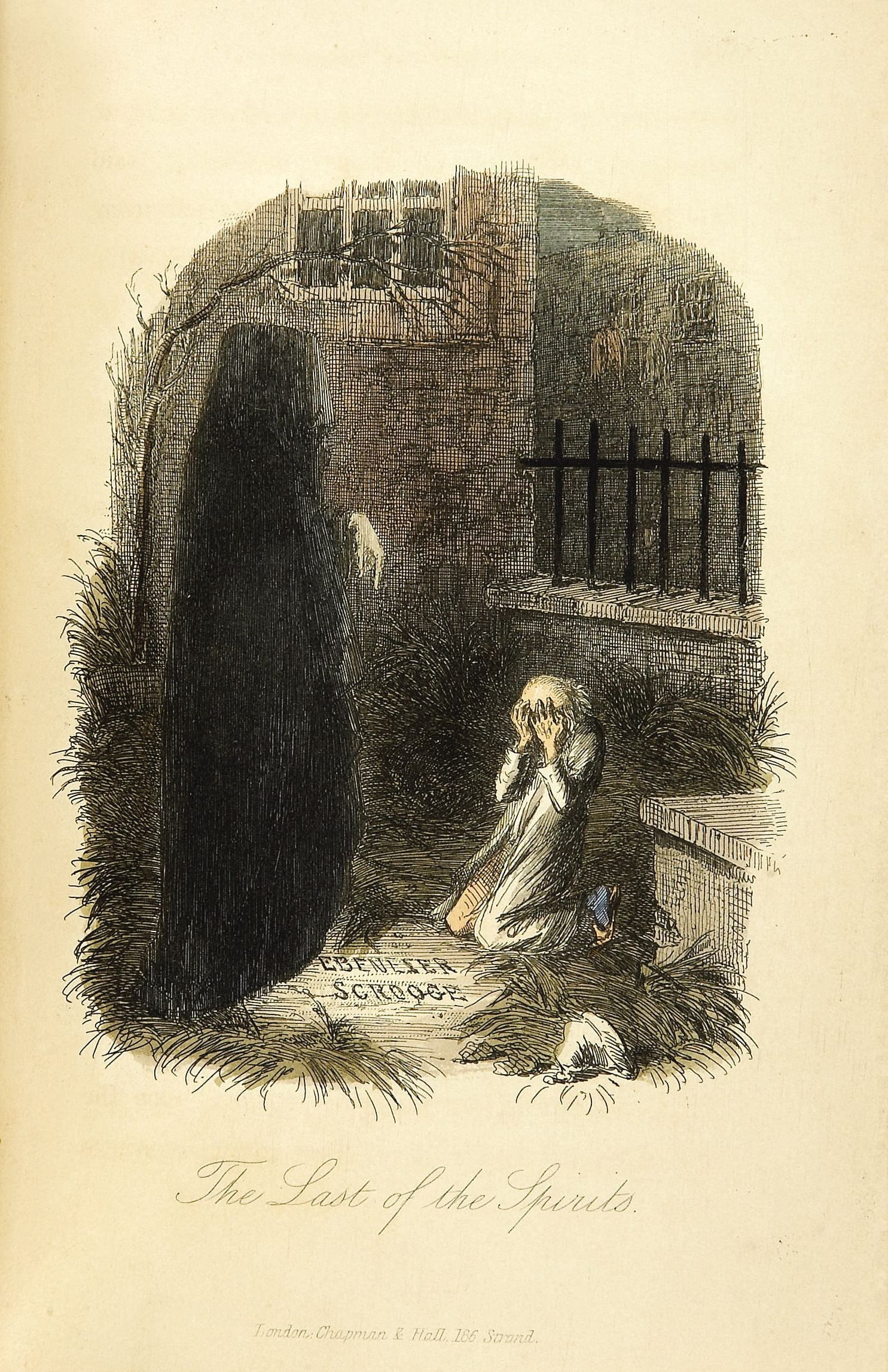 The Last of the Spirits, from Charles Dickens: A Christmas Carol. In Prose. Being a Ghost Story of Christmas. With Illustrations by John Leech. London: Chapman & Hall, 1843. First edition.